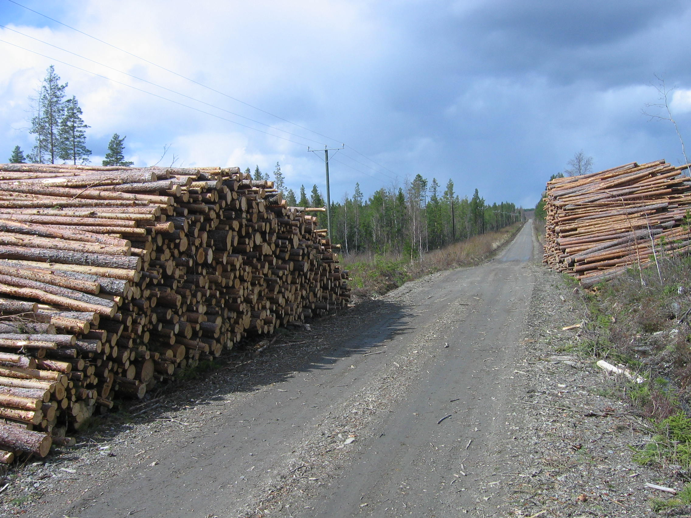 The road to the Potku village in Sanginkylä, Utajärvi, Finland, towards West.